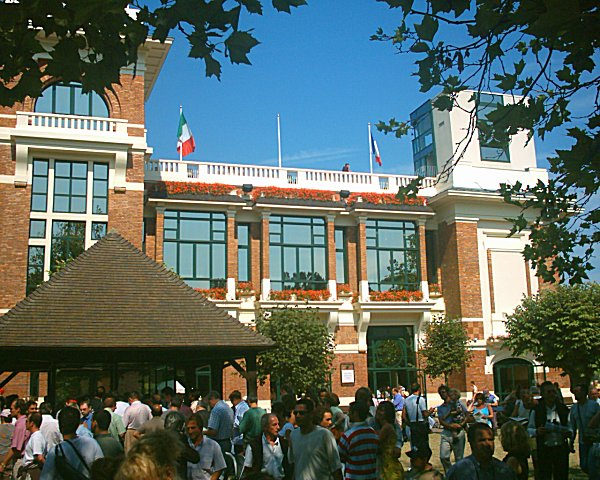 Deauville La Touque racecourse